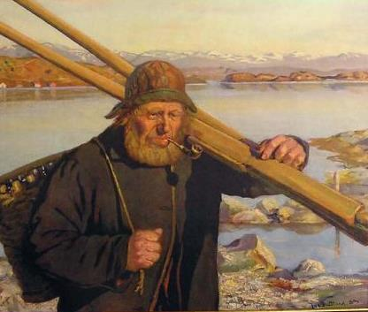 Home from fishinglabel QS:Len,"Home from fishing" label QS:Lnn,"På Hjemvei"